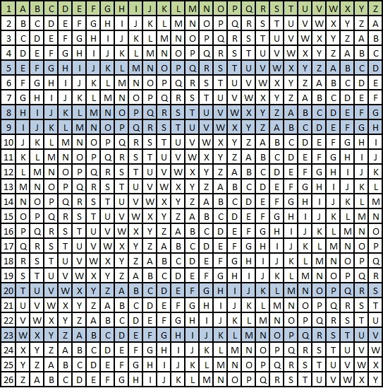 Vigener's square